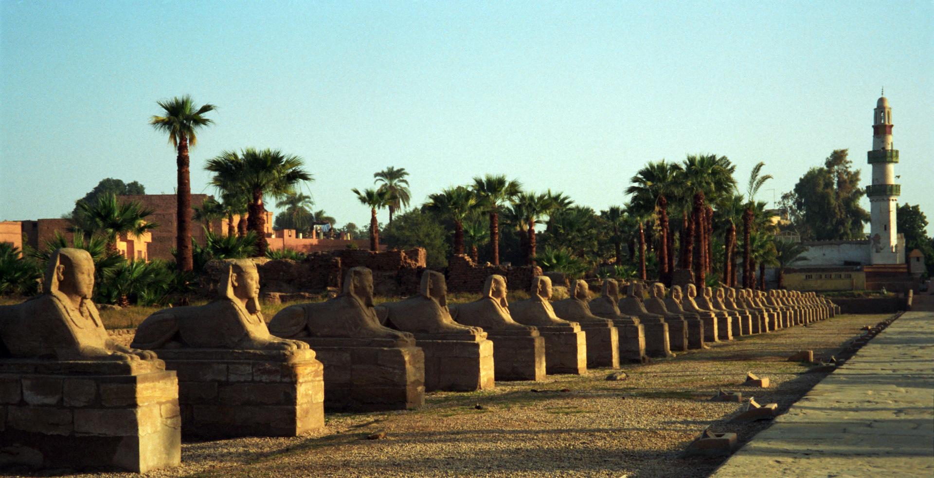 Luxor Temple